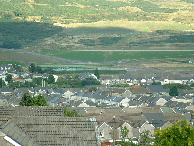 Maesteg Original description: Maesteg Looking NE for a good rooftop view across this square towards the hillside on the opposite side of the valley